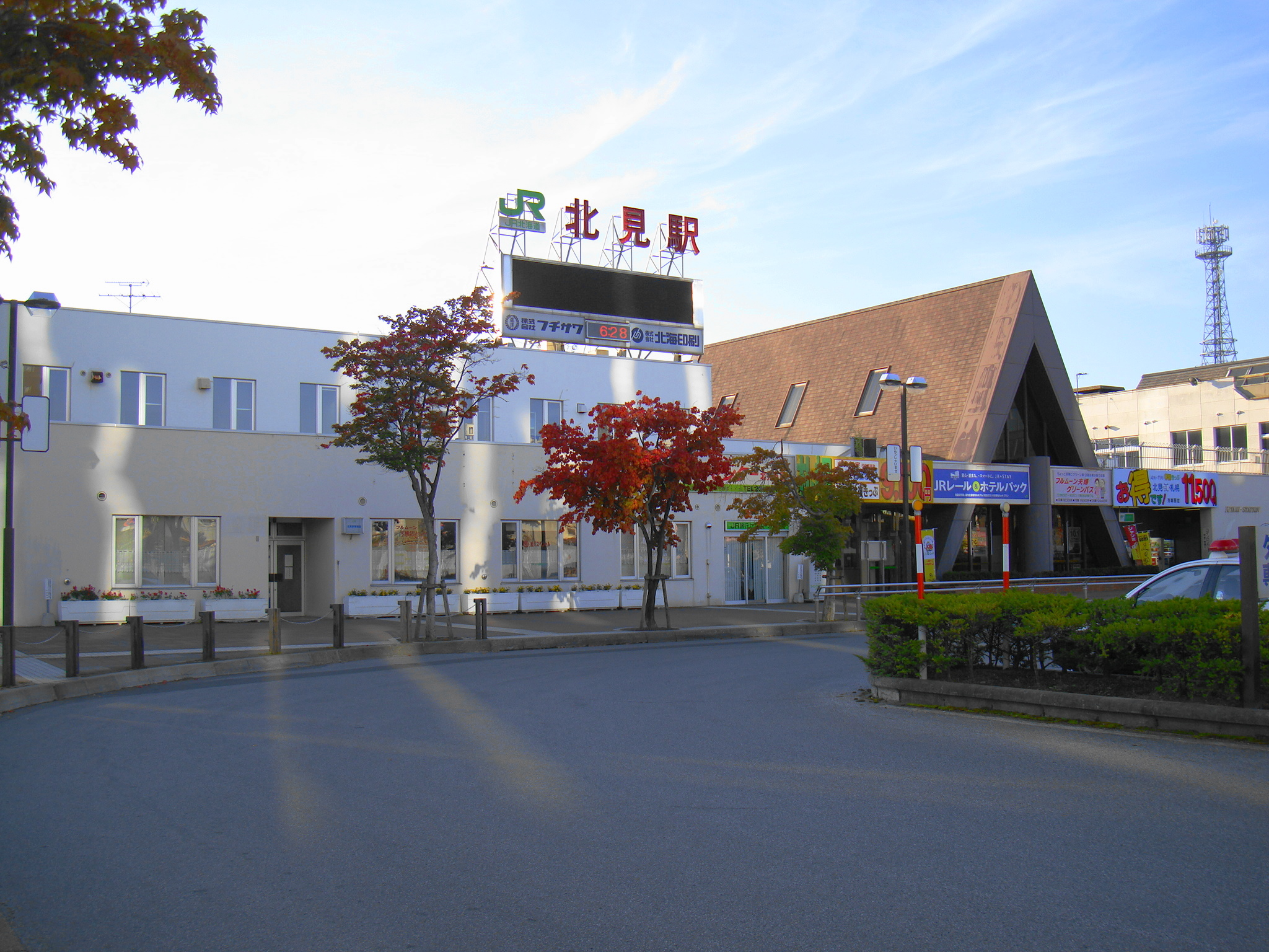 Kitami Station